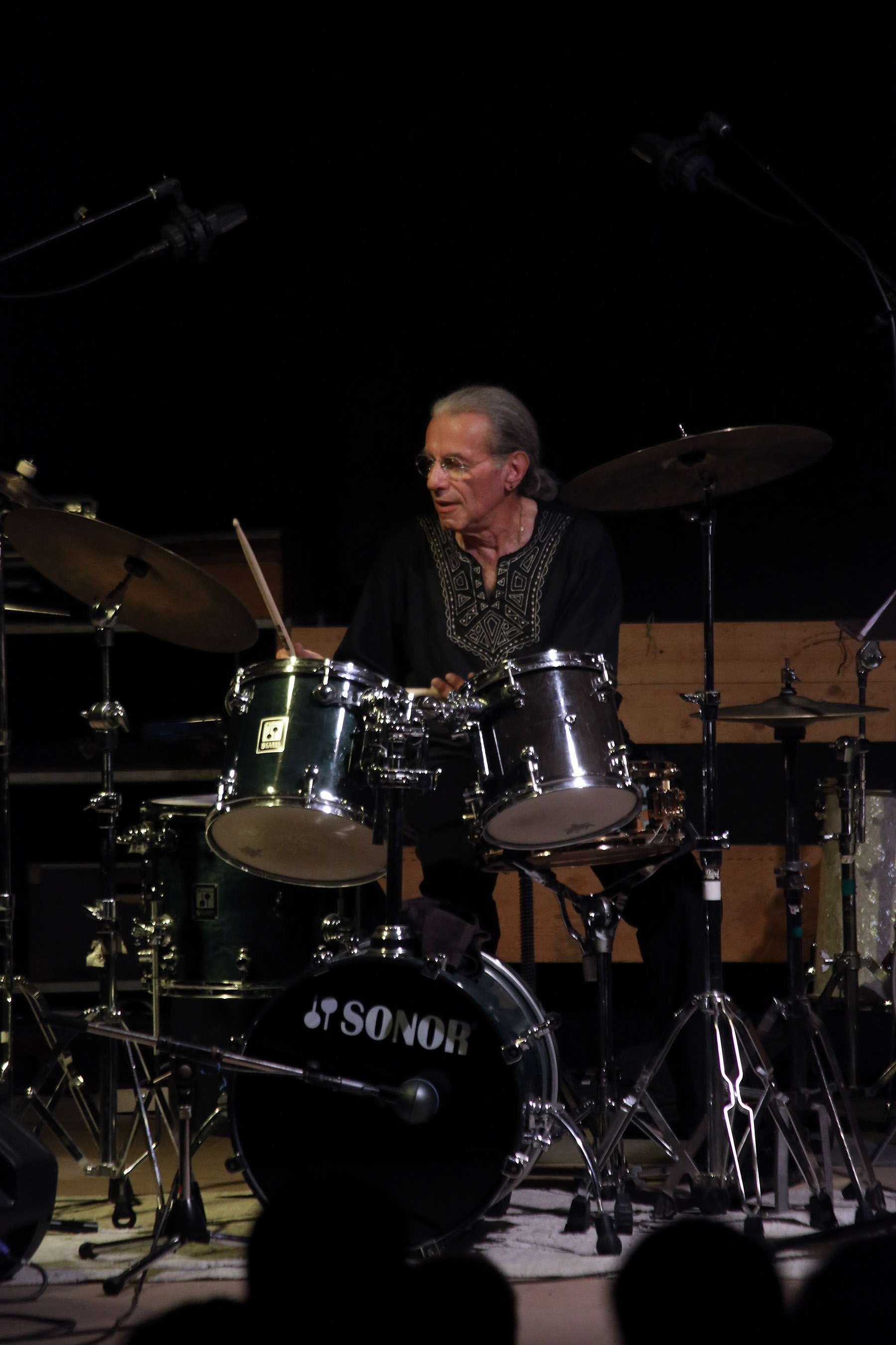 Jon Irabagon Trio 'FOXY - Jon Irabagon (sax.), Mark Helias (b.), Barry Altschul (dr.) - Ulrichsberger Kaleidophon (Ulrichsberg, Upper Austria)